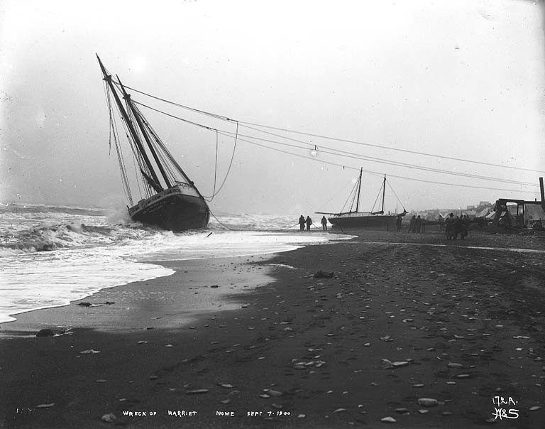 Caption on image: "Wreck of Harriet Nome Sept 17, 1900" Original image in Hegg Album 17, page 2 . Original photograph by Eric A. Hegg 1291; copied by Webster and Stevens 172.A. Subjects (LCTGM): Schooners--Alaska--Nome; Shipwrecks--Alaska--Nome; Beaches--Alaska--Nome Subjects (LCSH): Harriet (Schooner)